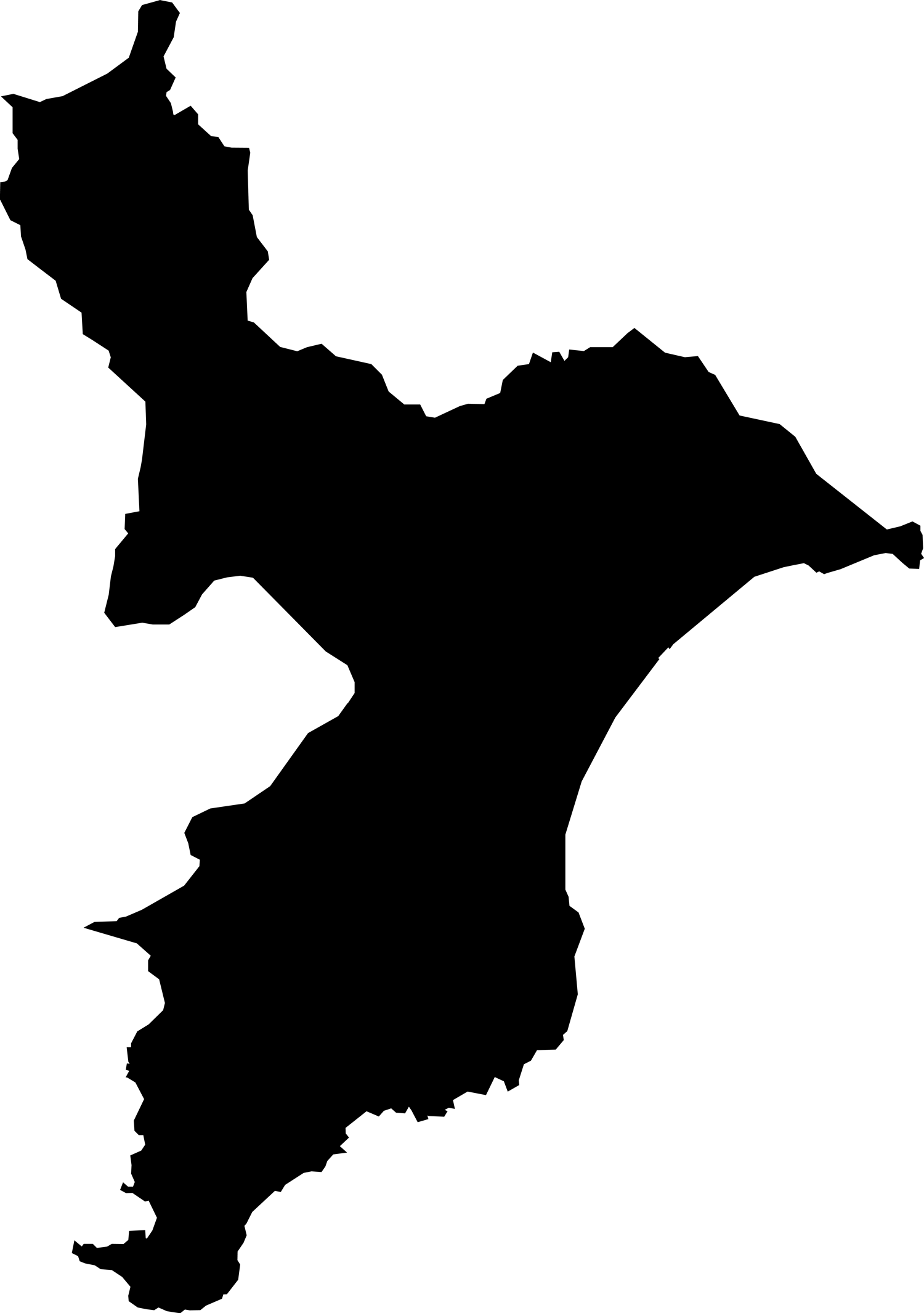 fusa no kuni（総国）/Provinces of Japan-fusa (Chiba)